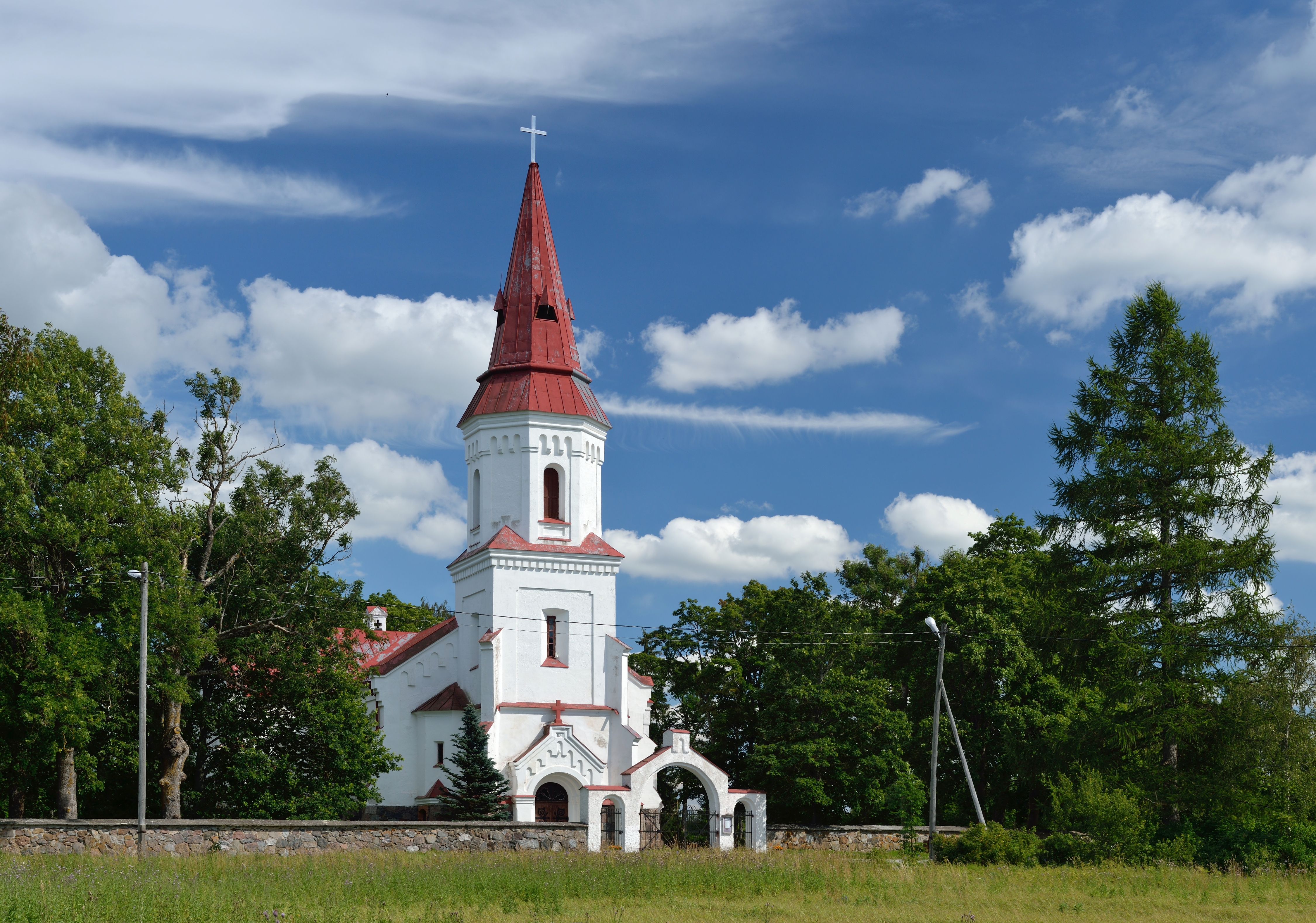 Hageri church, built in 1890-1892